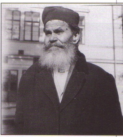 priest Iliya Zhelevarov from Zhelevo